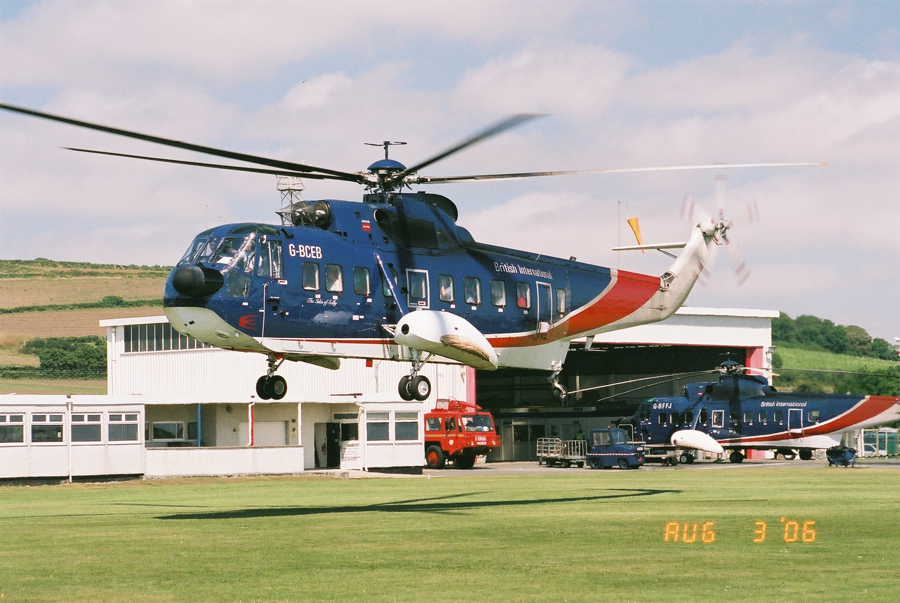 Author: Dave Taskis (me). Source: Canon EOS620 with 300mm lens. Location: Penzance Heliport.